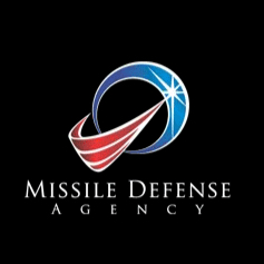 Updated logo for US Missile Defense Agency